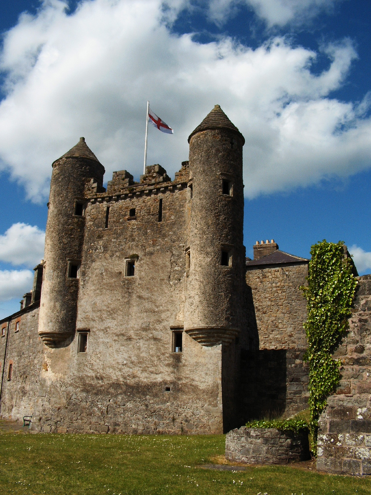 Enniskillen (from the Irish: Inis Ceithleann meaning "Kathleen's Island") is the county town (and largest town) in County Fermanagh and the west of Northern Ireland. It is located almost exactly in the centre of the county on the natural island which separates the Upper and Lower sections of Lough Erne. Enniskillen Castle is situated in Enniskillen, County Fermanagh, Northern Ireland. The first castle was built on this site by Hugh Maguire in the 16th century. It consists of two sections, a central keep and a curtain wall and provided the main defence for the west end of the town and guarded the Sligo road. It has been substantially rebuilt. It is a State Care Historic Monument. It featured greatly in Irish rebellions against English rule in the 16th century and was taken after an eight day siege in 1594. In 1607 it was remodelled and refurbished by Captain William Cole. The riverside tower at the south, known as the Watergate, was added at this time. In the 18th century the castle was remodelled as the Castle Barracks and now houses the Regimental Museum of the Royal Inniskilling Fusiliers.